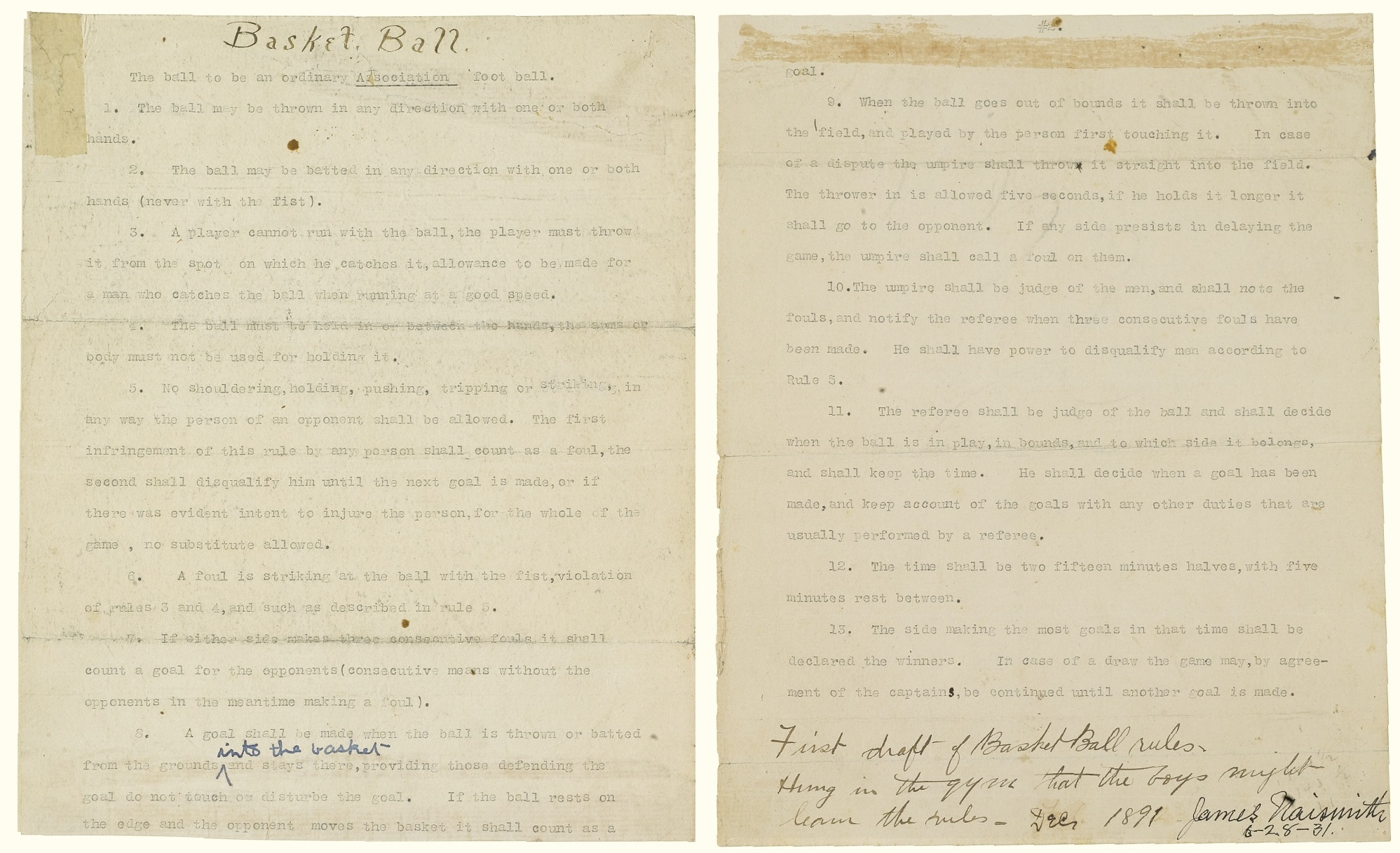 Typewritten first draft of the Rules of Basketball by James Naismith, dated December 1891, and signed James Naismith June 28, 1931.